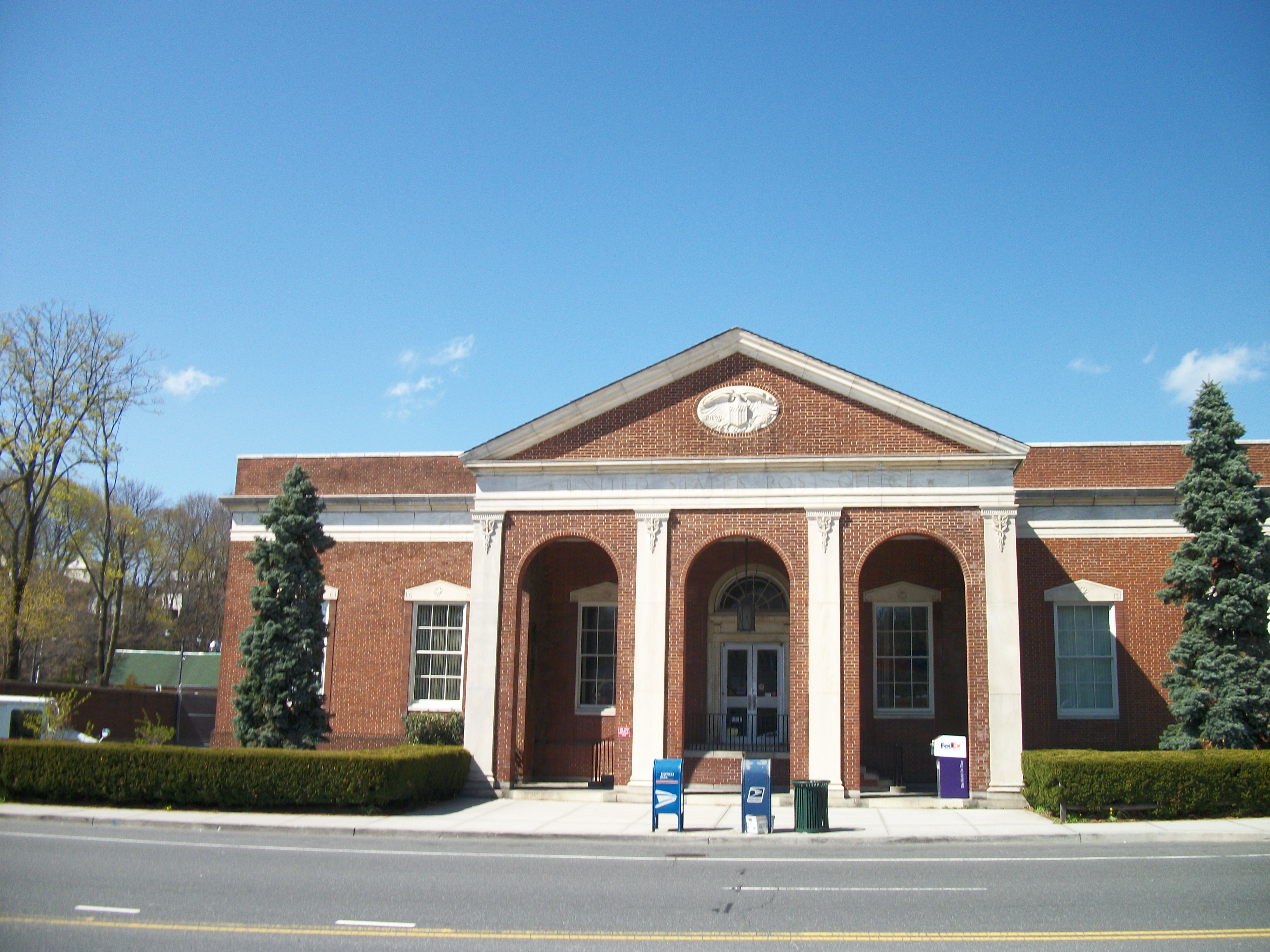 A long shot of the historic United States Post Office in the city of Glen Cove, New York. This replaced the old post office, which was just listed on NRHP earlier in 2011. Taken from the middle of New York State Route 107.